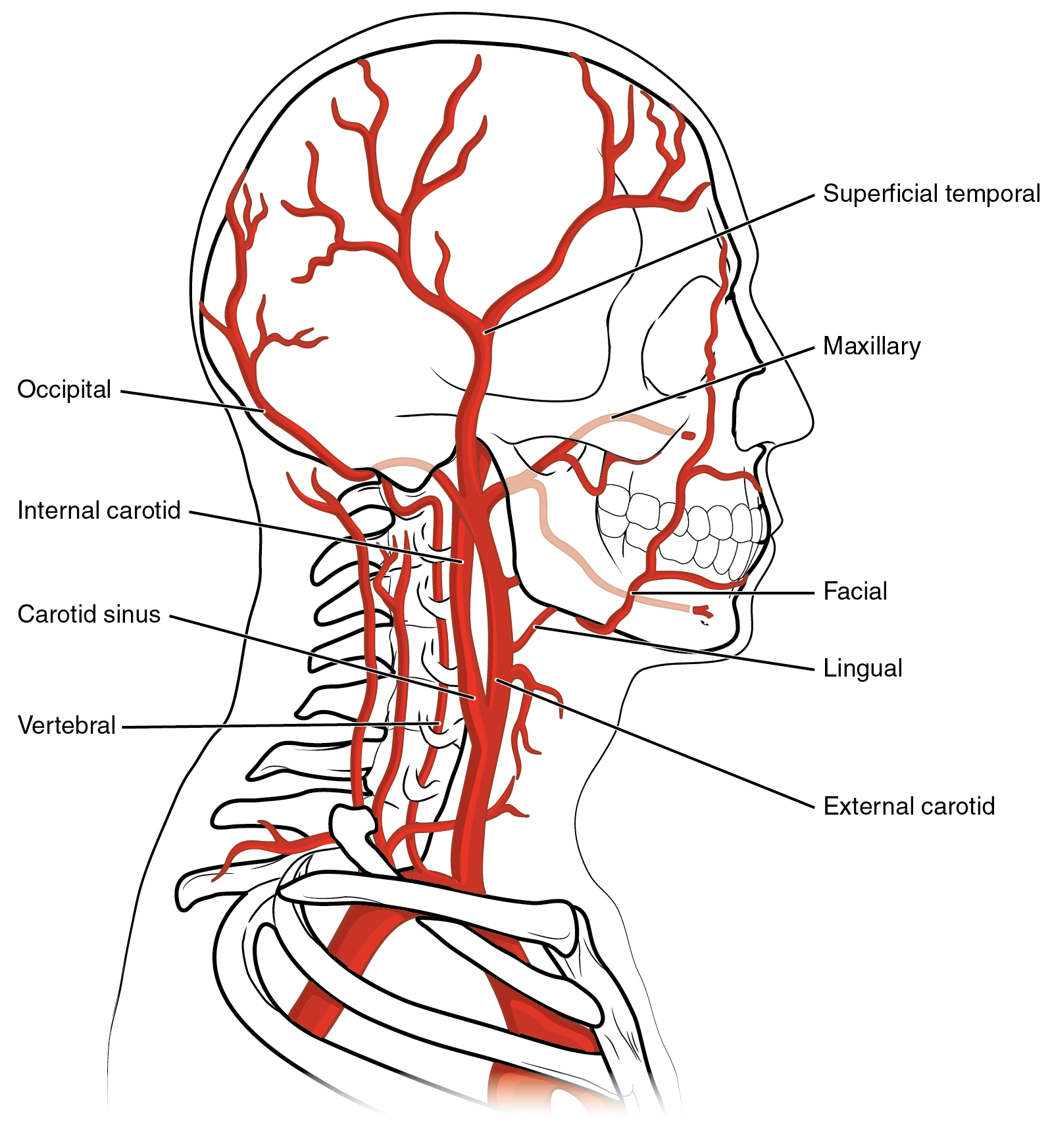 Illustration from Anatomy & Physiology, Connexions Web site. Jun 19, 2013.